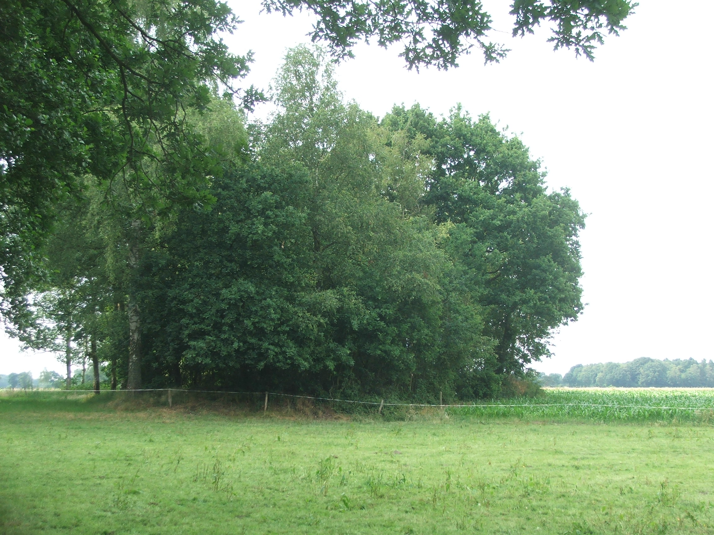 Old Graves at Rispel